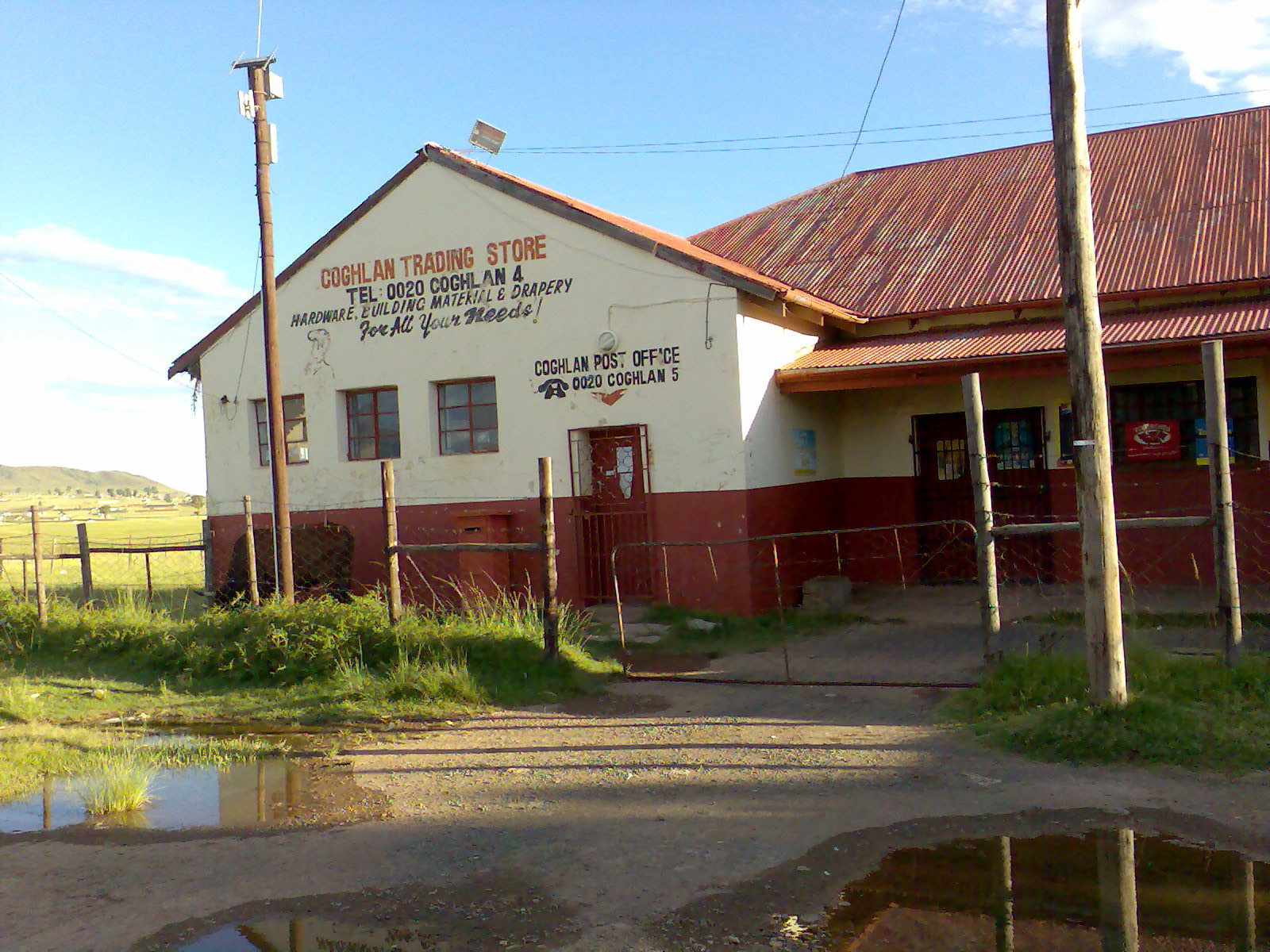 Coghlan Trading Store and Post Office on the R61 route between Ngcobo and Mthatha